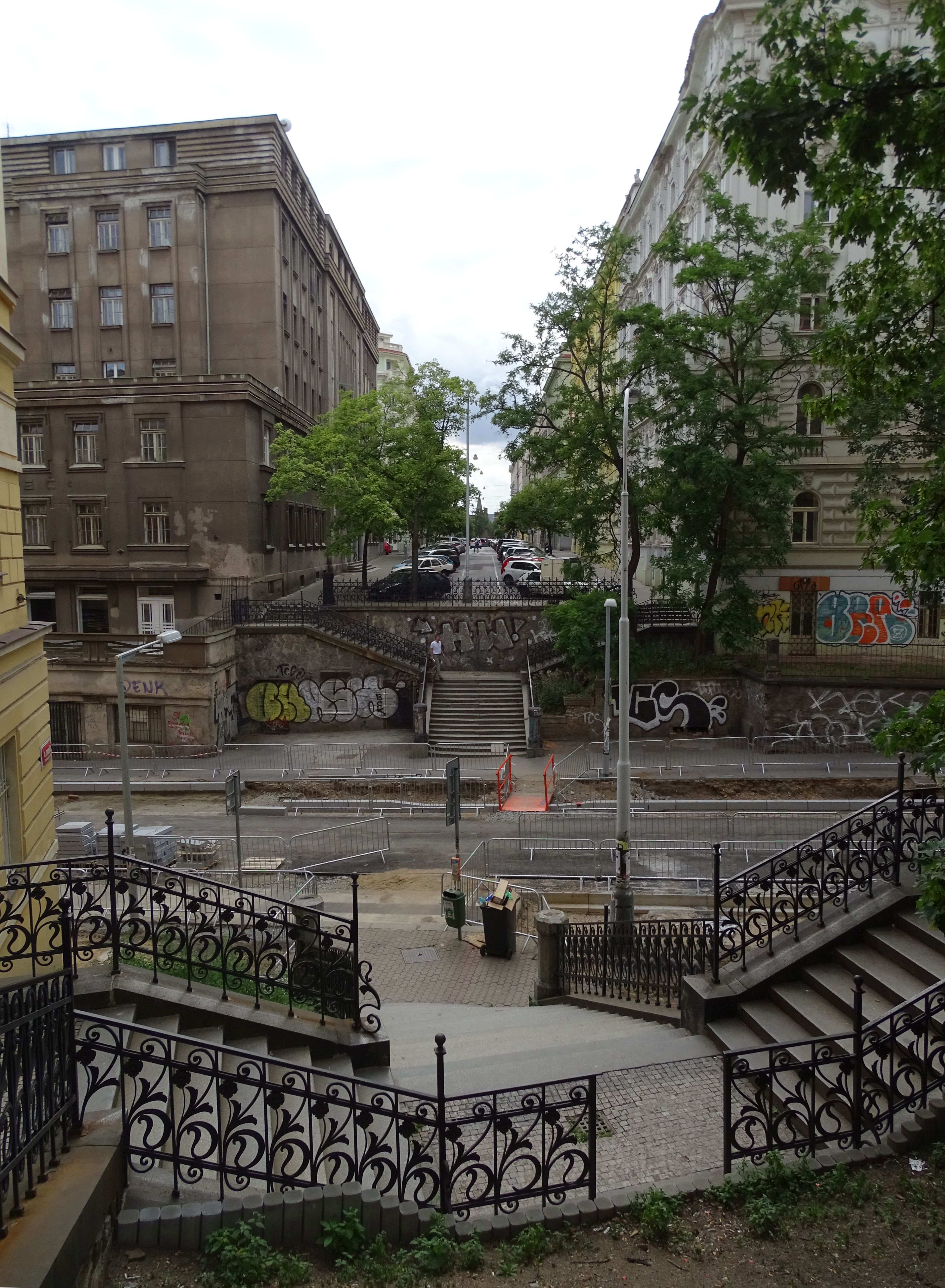 Prague-Vinohrady, Czech Republic. Wenzigova street across Bělehradská street, Wenzigova 1982/20, Bělehradská 1982/43, Budeč student housing, Bělehradská street, reconstruction of tram track.